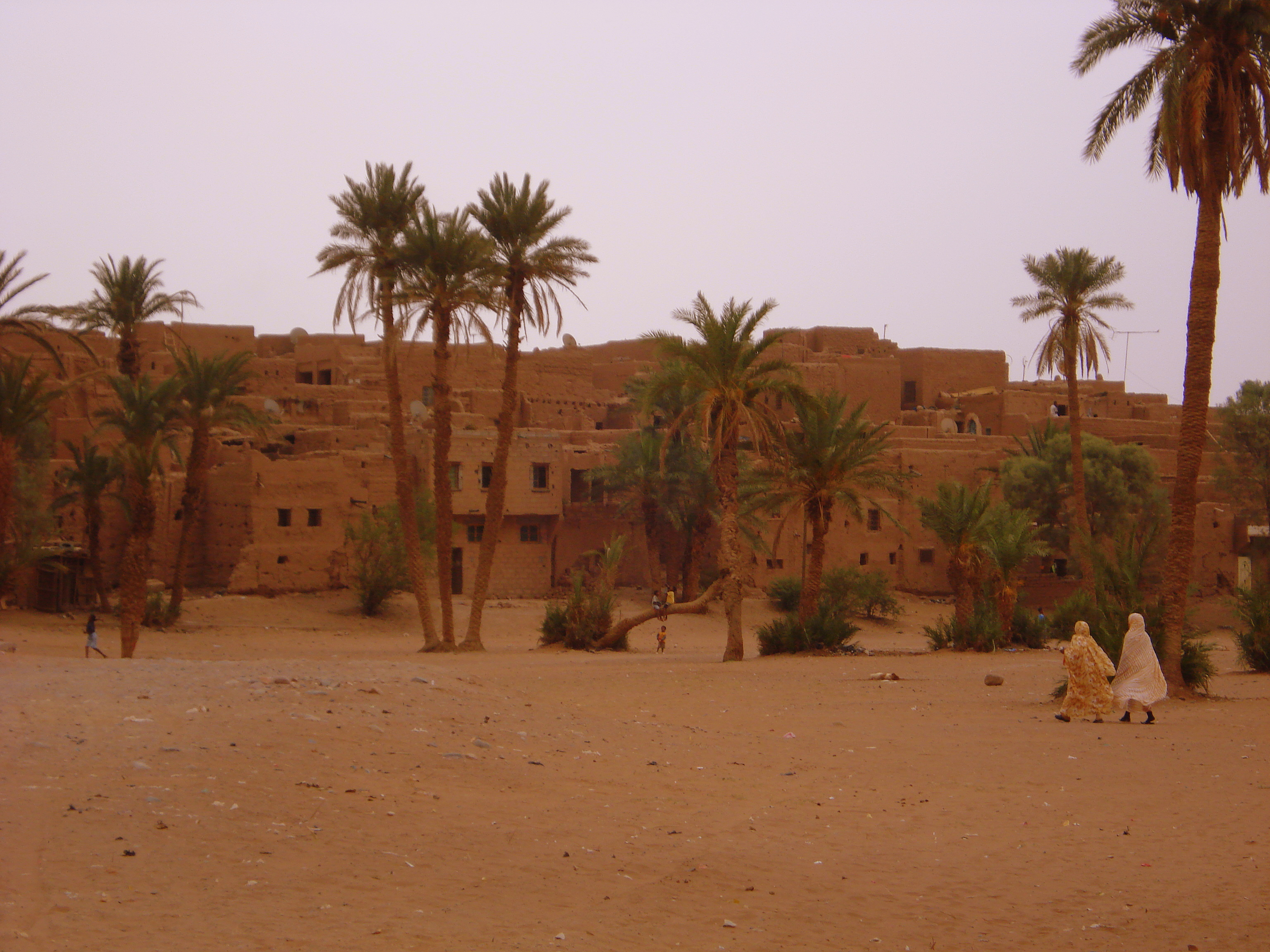 Tamegroute